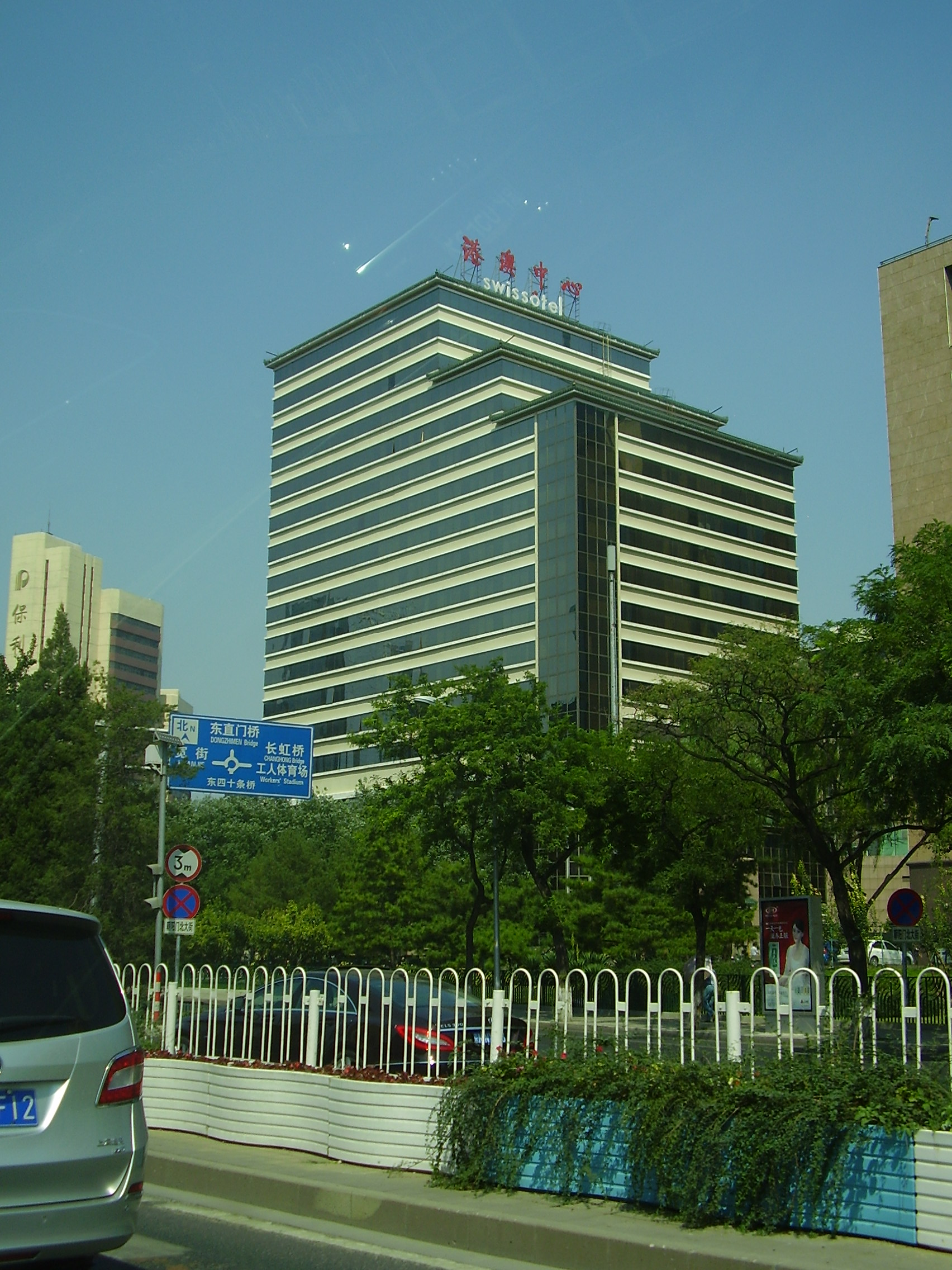 Swissôtel Beijing, Hong Kong Macau Center (港澳中心 Gǎng Ào Zhōngxīn) - No. 2 Chao Yang Men Bei Da Jie ▪ Beijing 100027 ▪ China